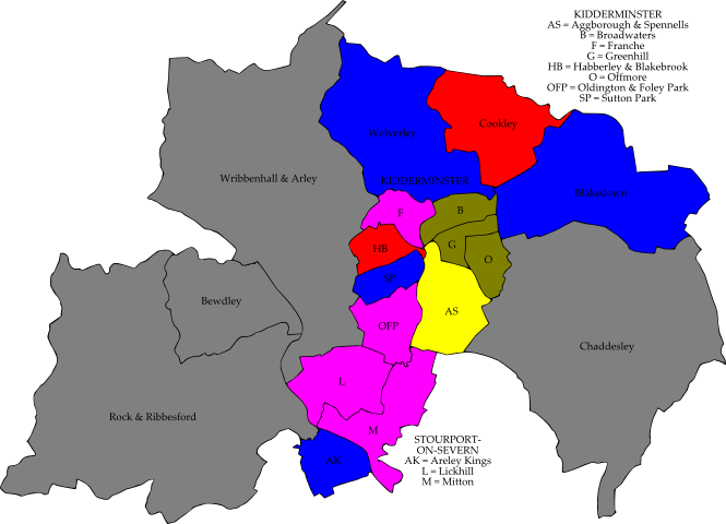 Map of Wyre Forest, Worcestershire, UK showing the results of the 2003 local elections. Colours: Conservative Health Concern Liberal Labour Liberal Democrat Wards in grey were not contested in 2003.